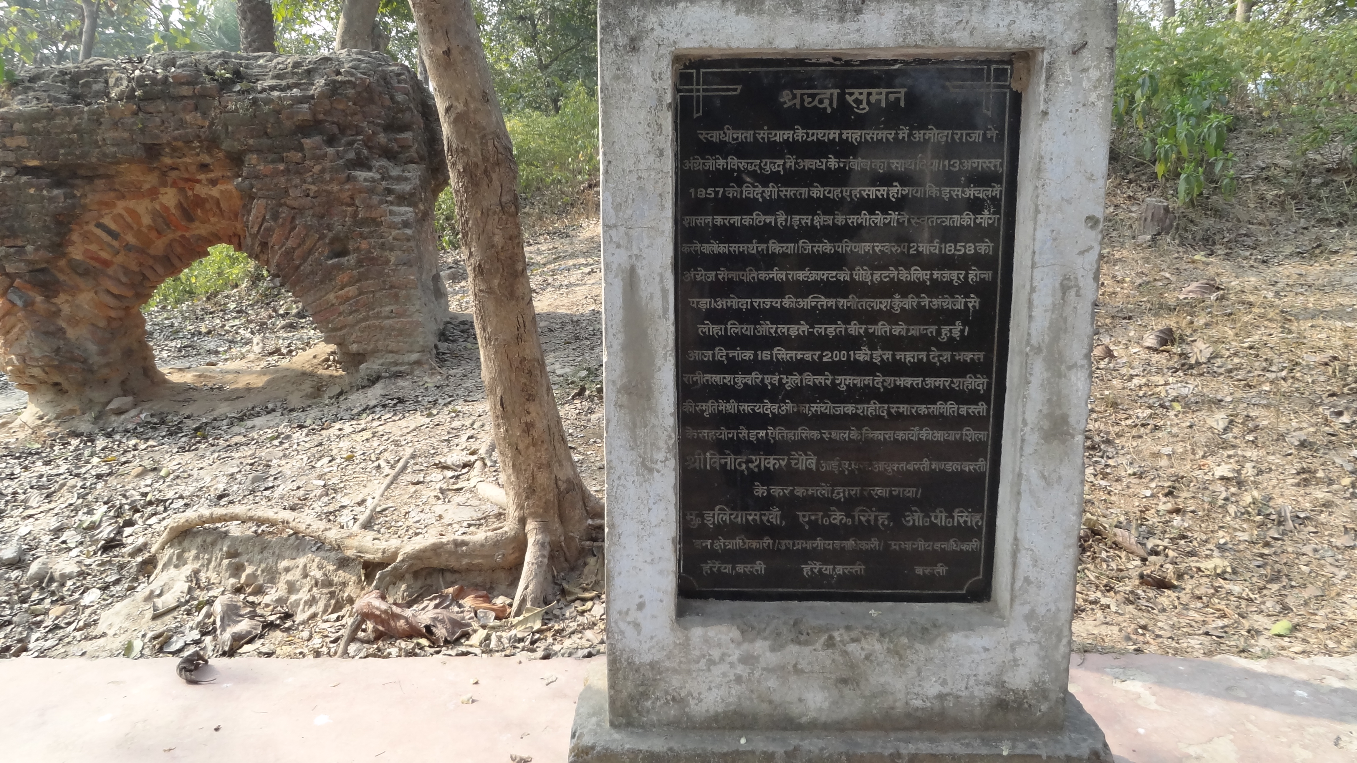 राजा ज़ालिम सिंह स्मारक स्थल, अमोढ़ा (Amorha, Basti, Uttar Pradesh)